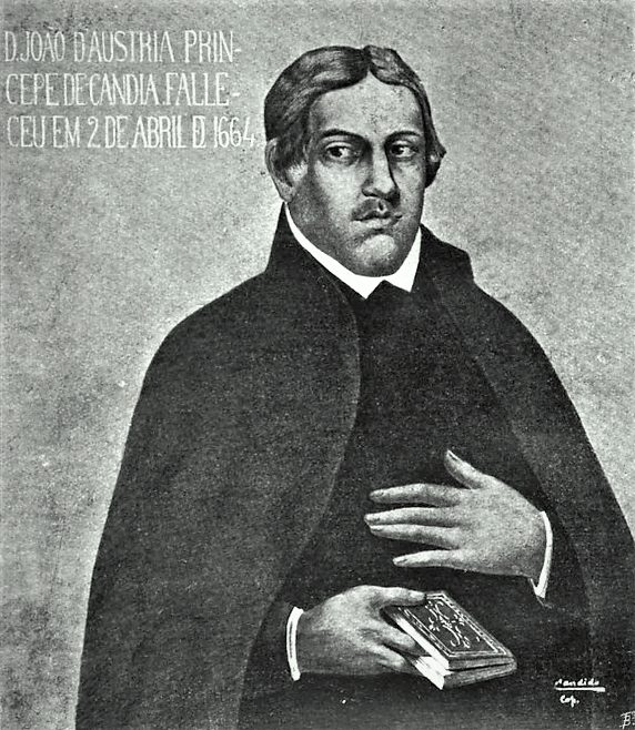 Reproduction, published 1905, of a lost 17th-century portrait (once in the National Library of Portugal) depicting John, Prince of Kandy (1578–1642), the son of Yamasinghe Bandara, also known in Portugal as "the Black Prince" or "the Prince of Telheiras". Note that the inscription has some mistakes, such as the name and the date of death.